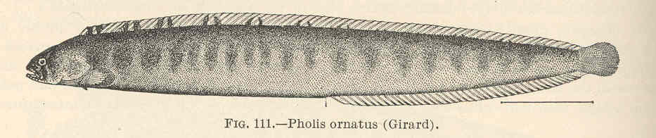 Pholis ornatus (Girard) Subject: Pholadidae, Pholis Tag: Fish